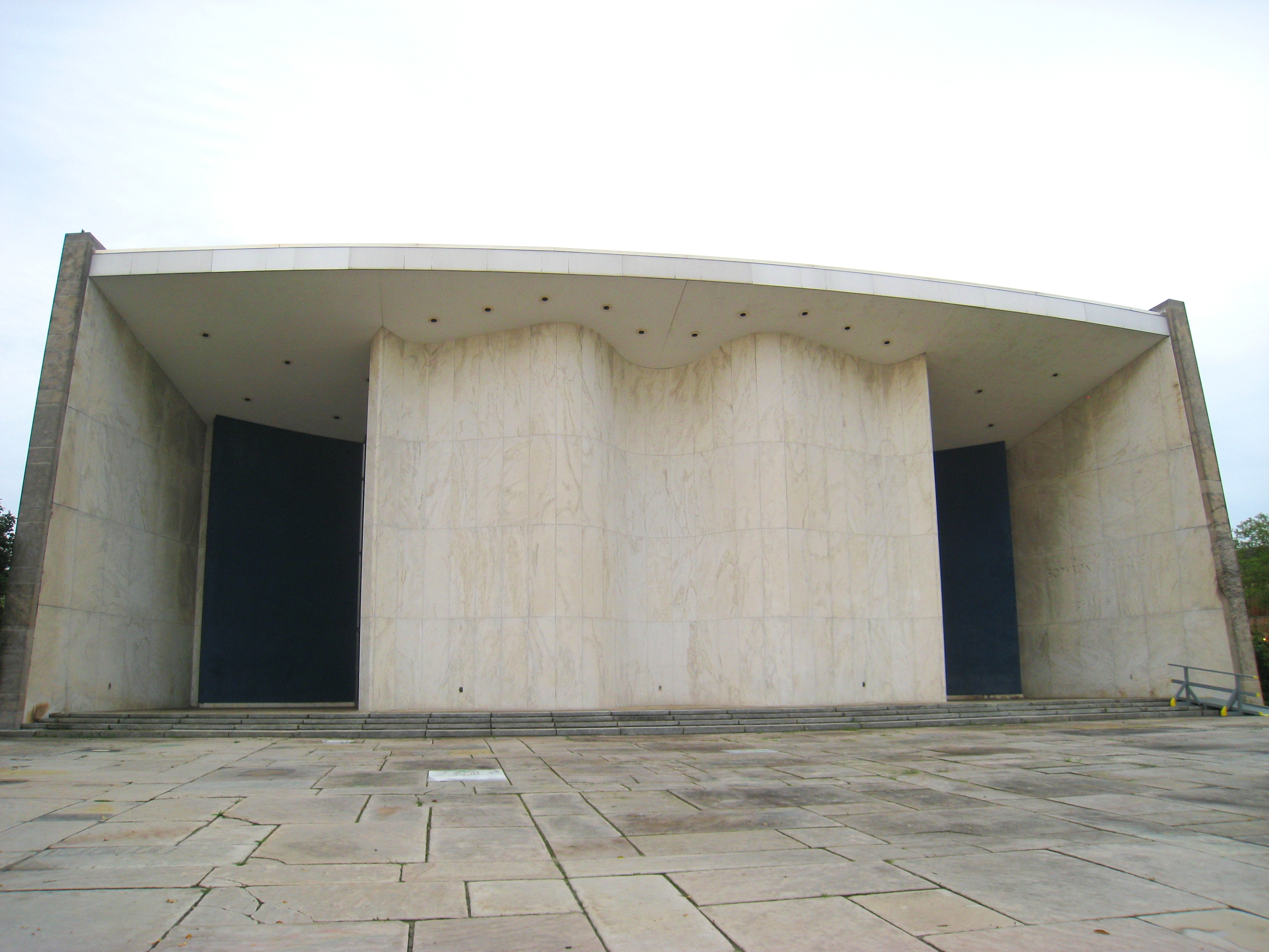 Sophronia Brooks Hall Auditorium, Oberlin College, Oberlin, Ohio, USA. Architect Wallace Harrison, inaugurated 1953. I took this photograph.